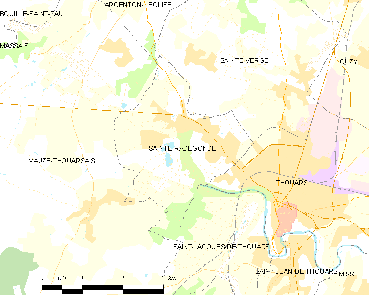 Map of French municipality Sainte-Radegonde